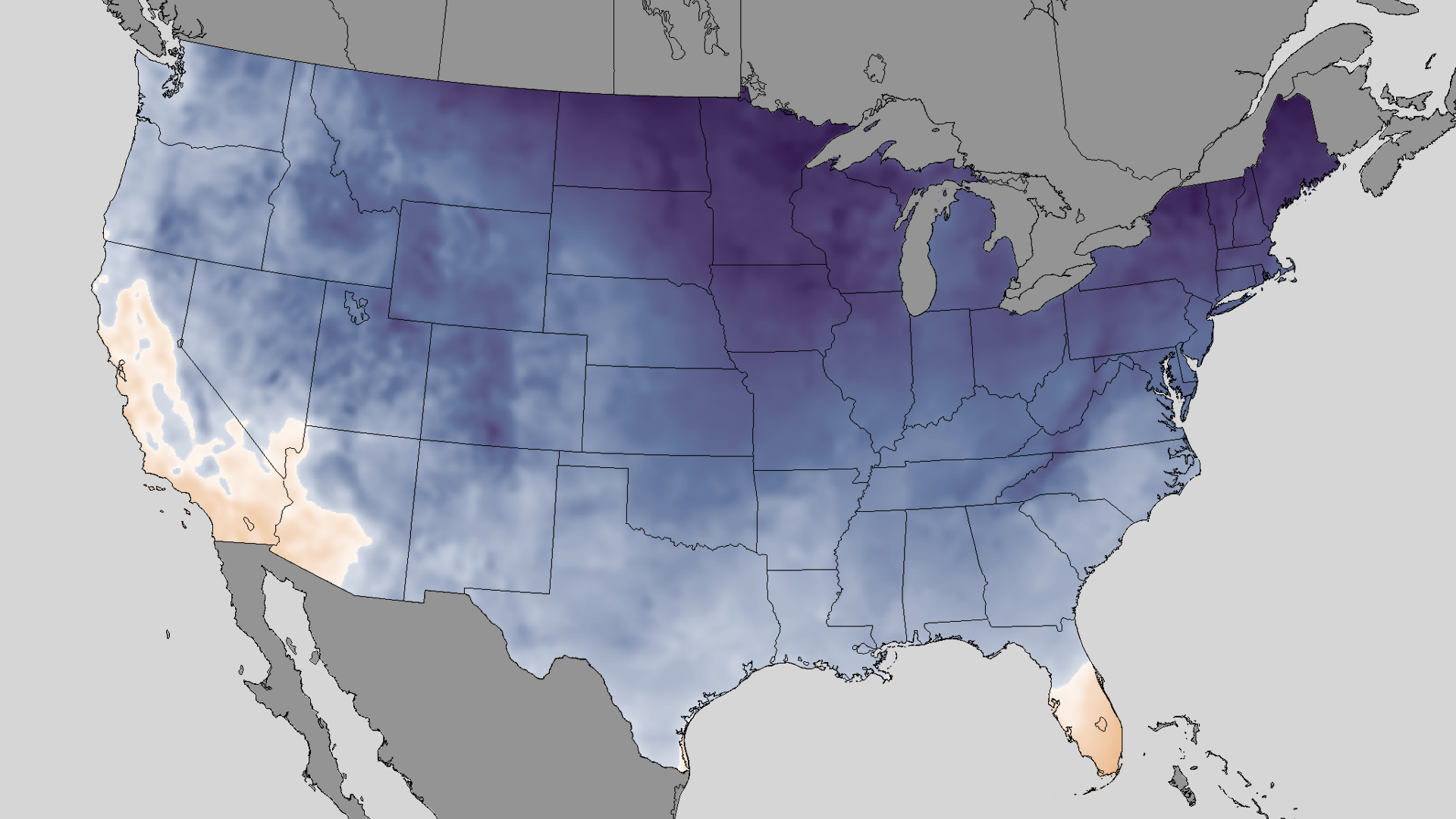 For most of the U.S., at some point during the January 2–4, 2014 time-frame, temperatures hit the freezing point. Using data from the National Weather Service's NDFD forecast and reanalysis, the minimum apparent temperature (i.e., wind chill) is plotted here. The color scale changes abruptly at 32 °F to a blue color. Only areas with pale orange/white are above freezing over the duration of those days.